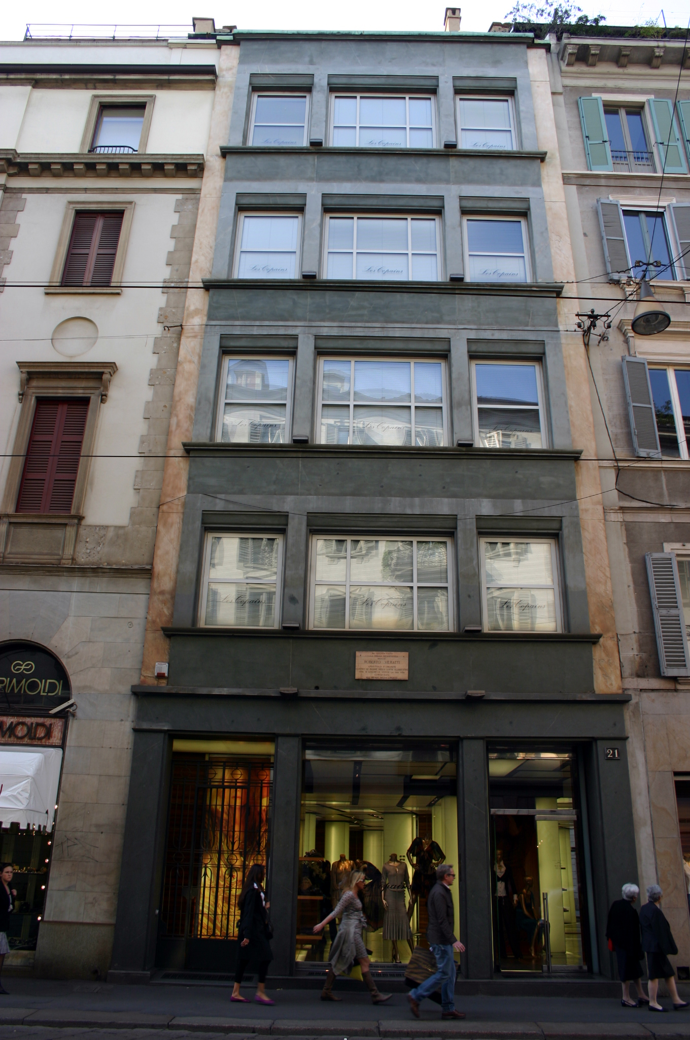 The home of the Italian antifascist freedom-fighter Roberto Veratti (3/5/1902-24/12/1943), in "via Manzoni" street at Milan. Picture by Giovanni Dall'Orto, April 14 2007. The building. The plaque.